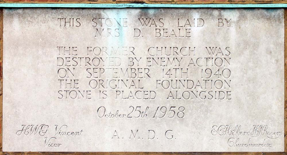 St Katherine, Westway, London W12 - Foundation stone, near to Acton, Ealing, Great Britain.